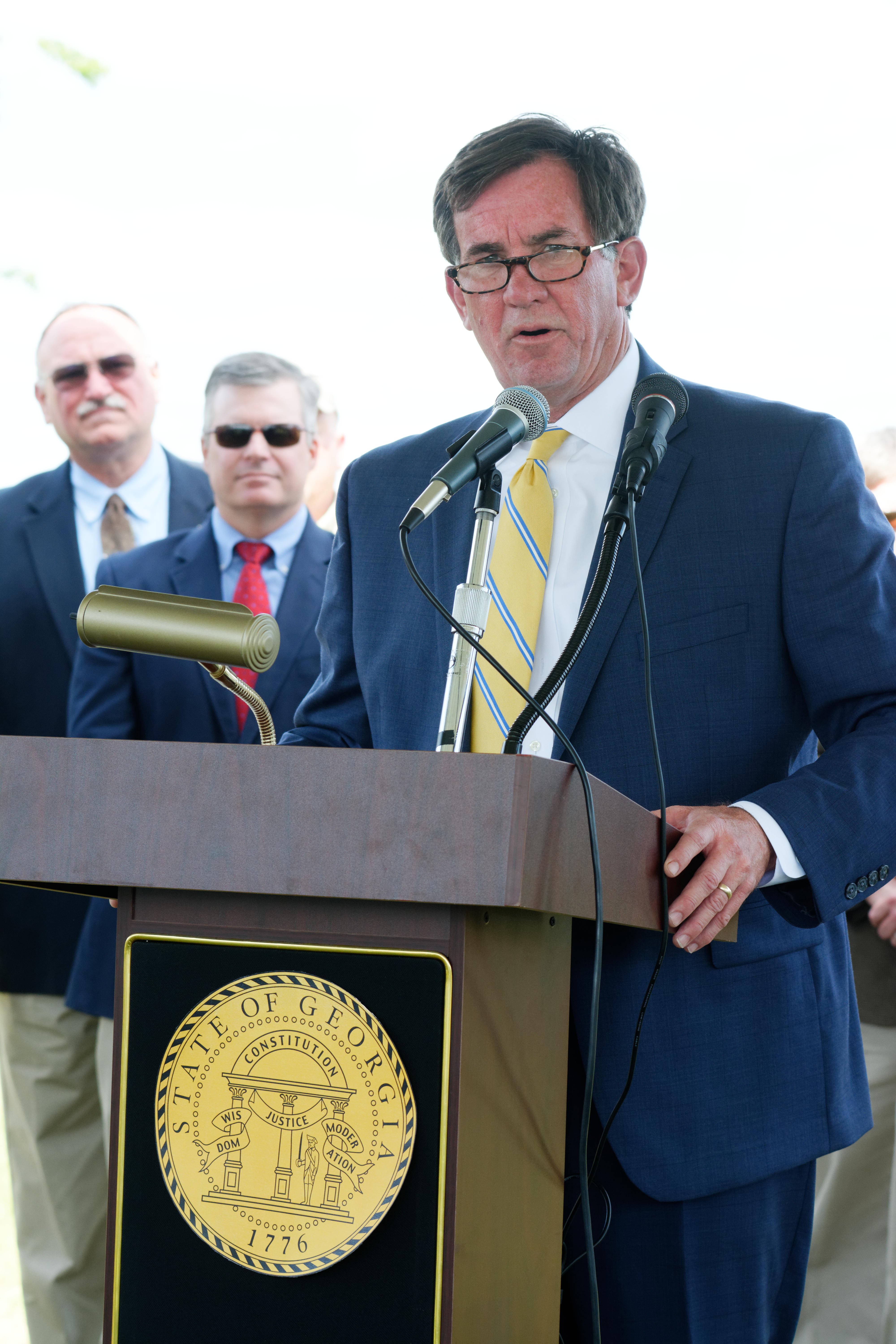 Mark Williams, commissioner of the Georgia Department of Natural Resources, speaking in Brunswick, Georgia, April 25, 2017